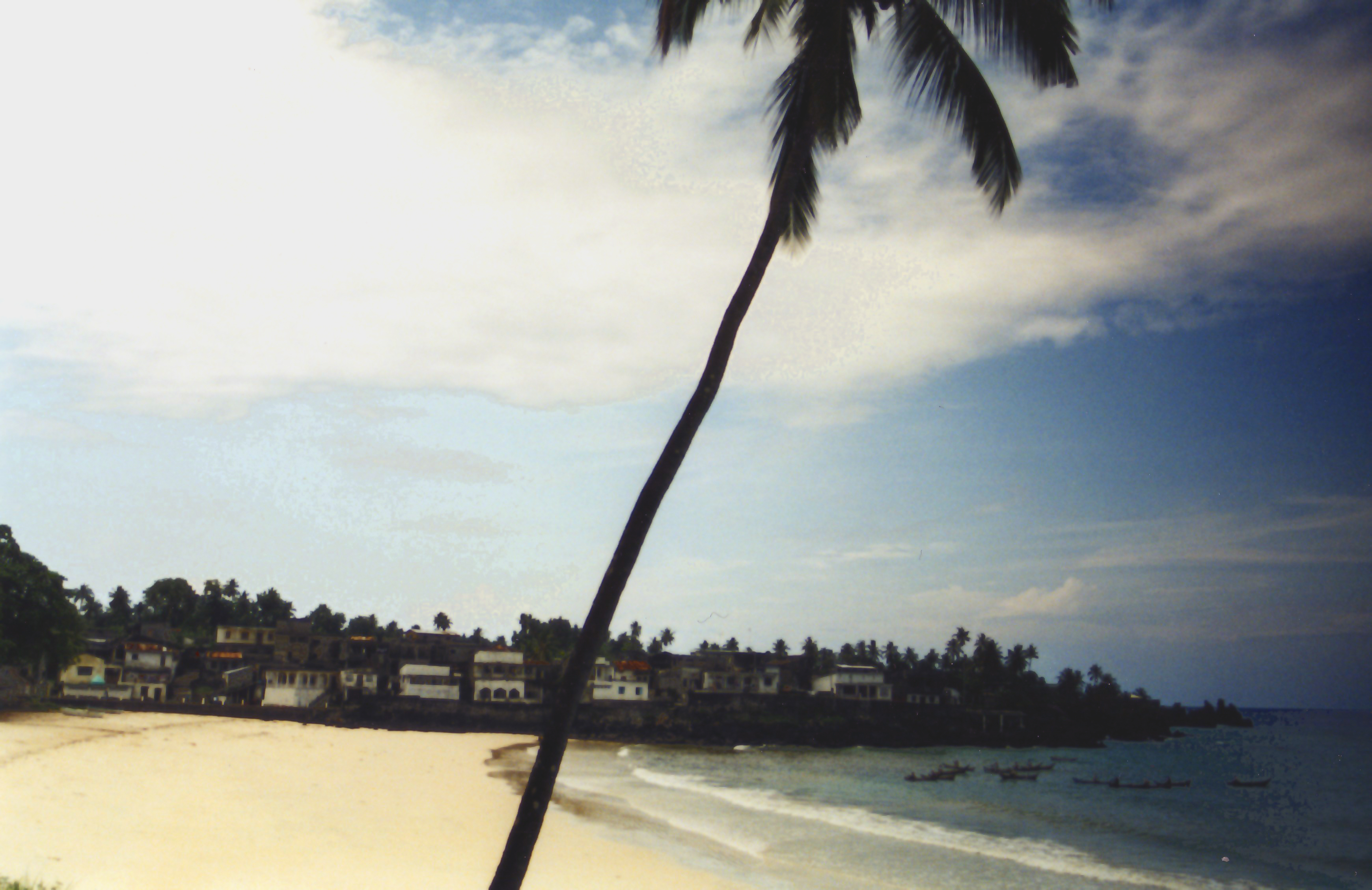 Itsendra beach, a town close Moroni (Grande Comore)